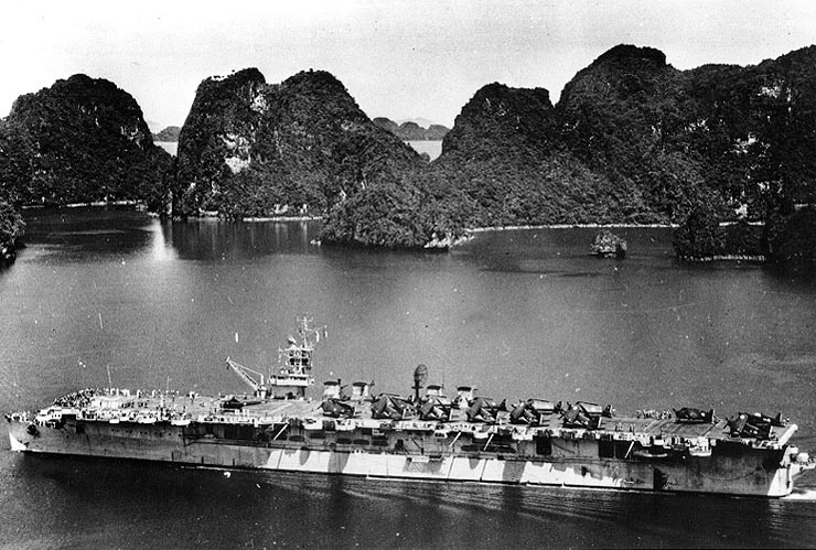 The French aircraft carrier La Fayette (R96) in Indochina waters, 1953.